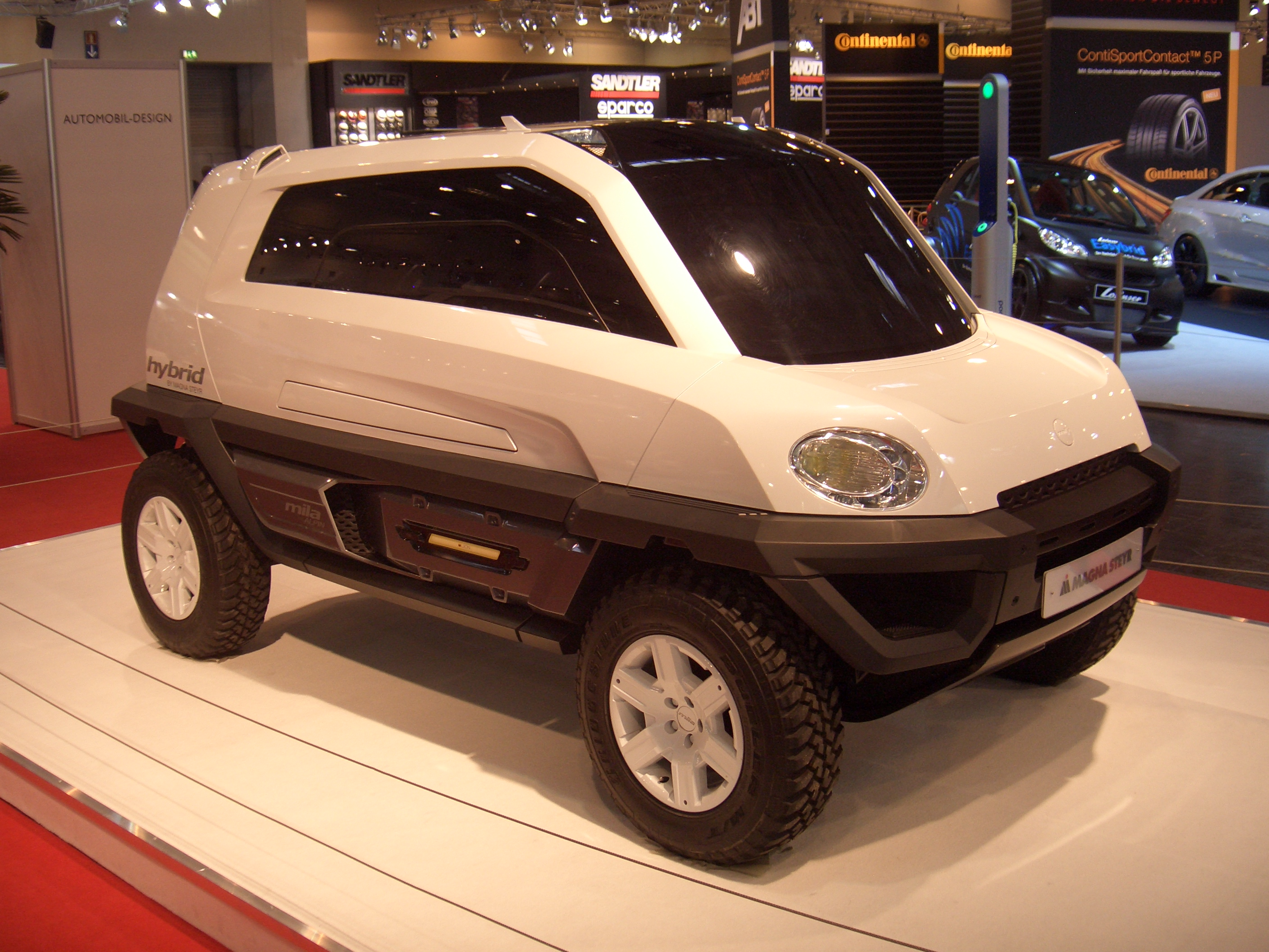 Mila (concept car division of Magna-Steyr) Alpin, 2008, seen at MOTOR SHOW ESSEN 2010